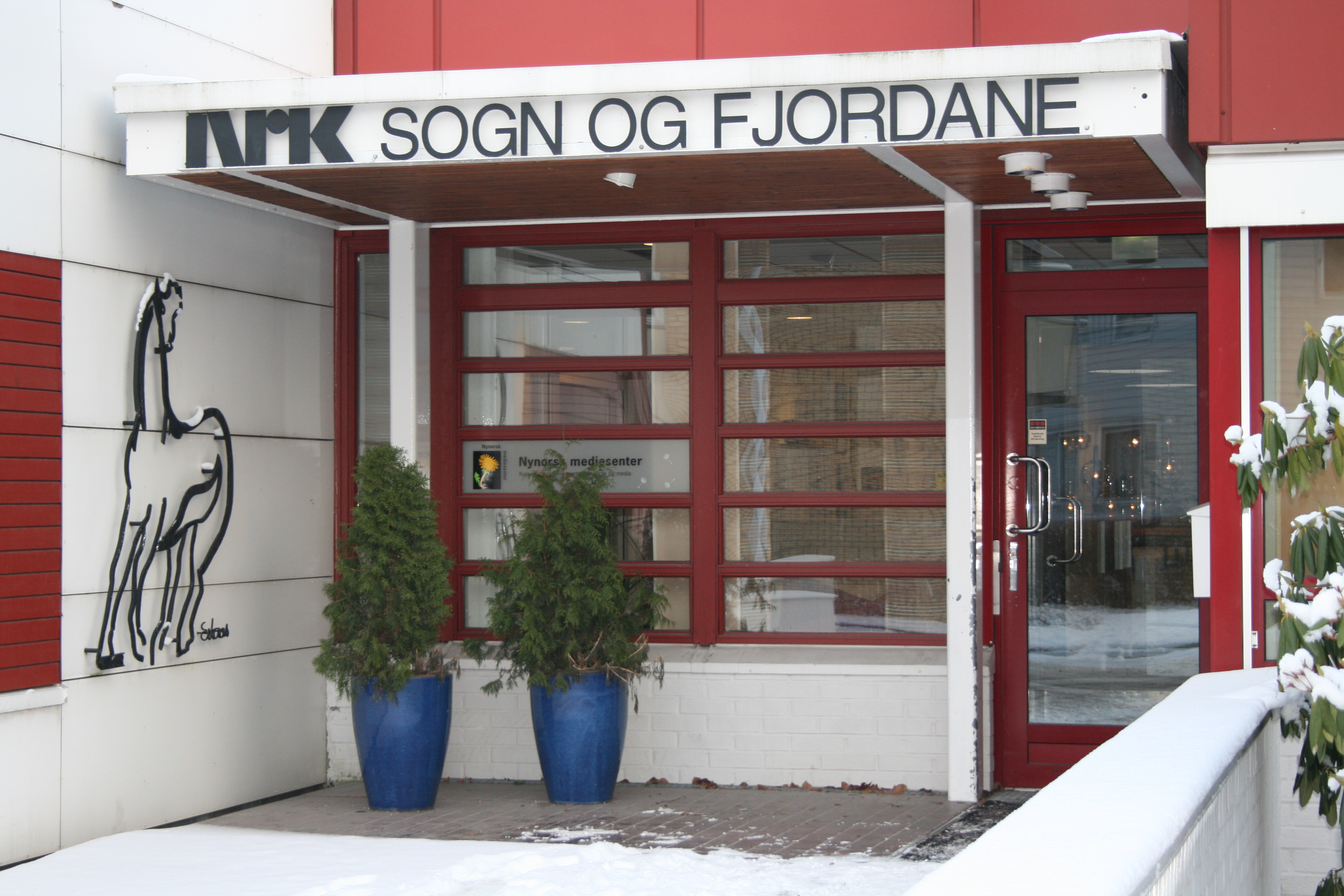 One of the regional offices of the Norwegian Broadcasting Corporation in Førde kommune, Sogn og Fjordane, Norway (entrance).